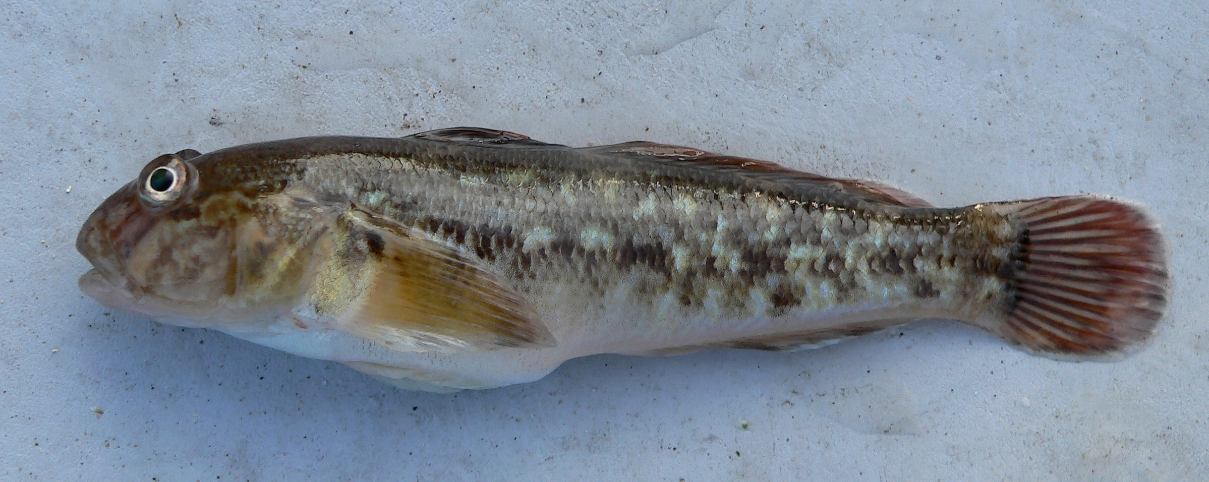 The round goby is an exotic species in the Waal. It was pretty numerous we caught three specimen from different places. It is about 9 cm long